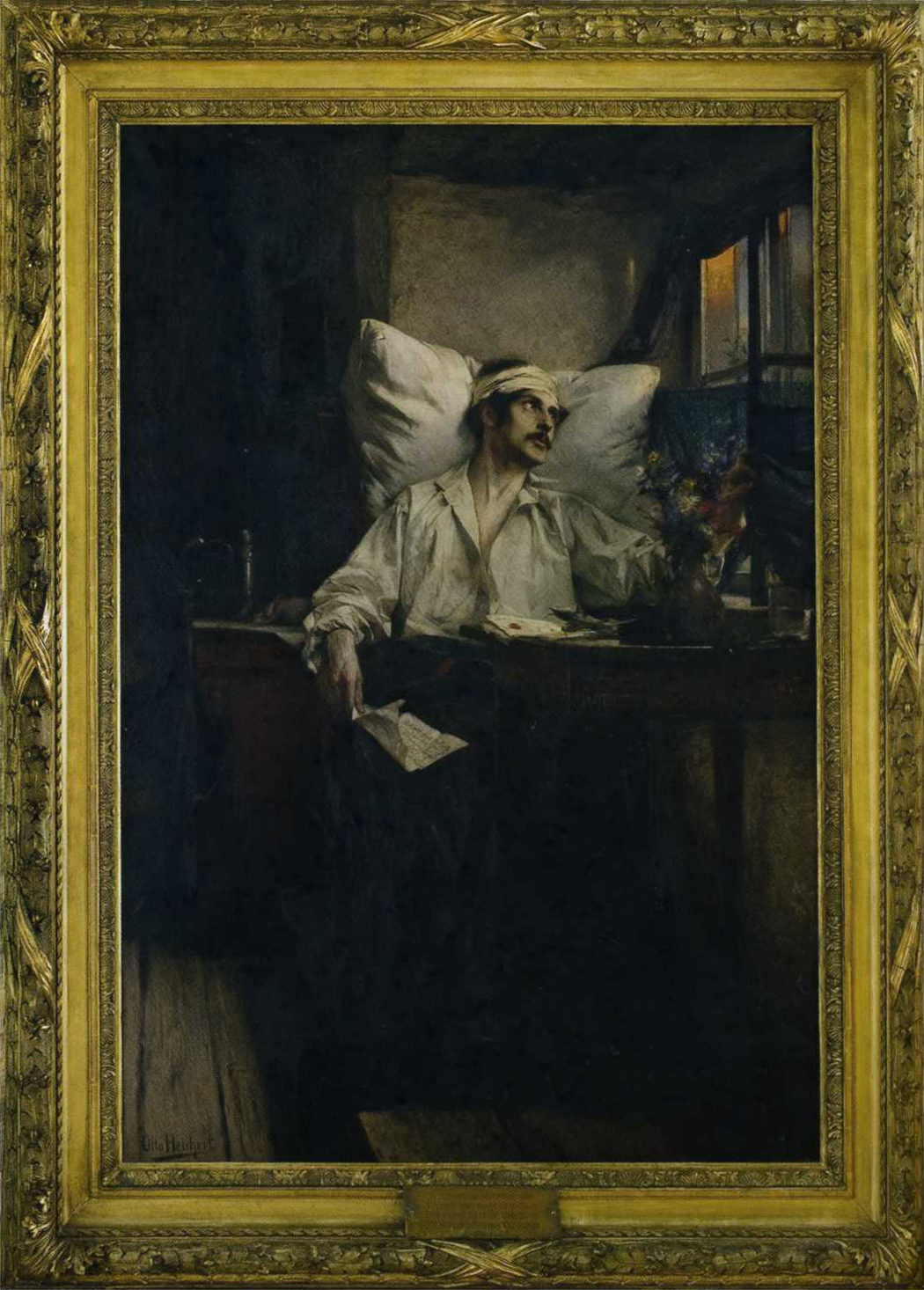 Theodor Körner after the Ambush at Kitzen, by Otto Heichert, ca. 1910. Oil on canvas, 209 x 154 cm. Auction House , Dr. Beer, Witzhave, Germany.